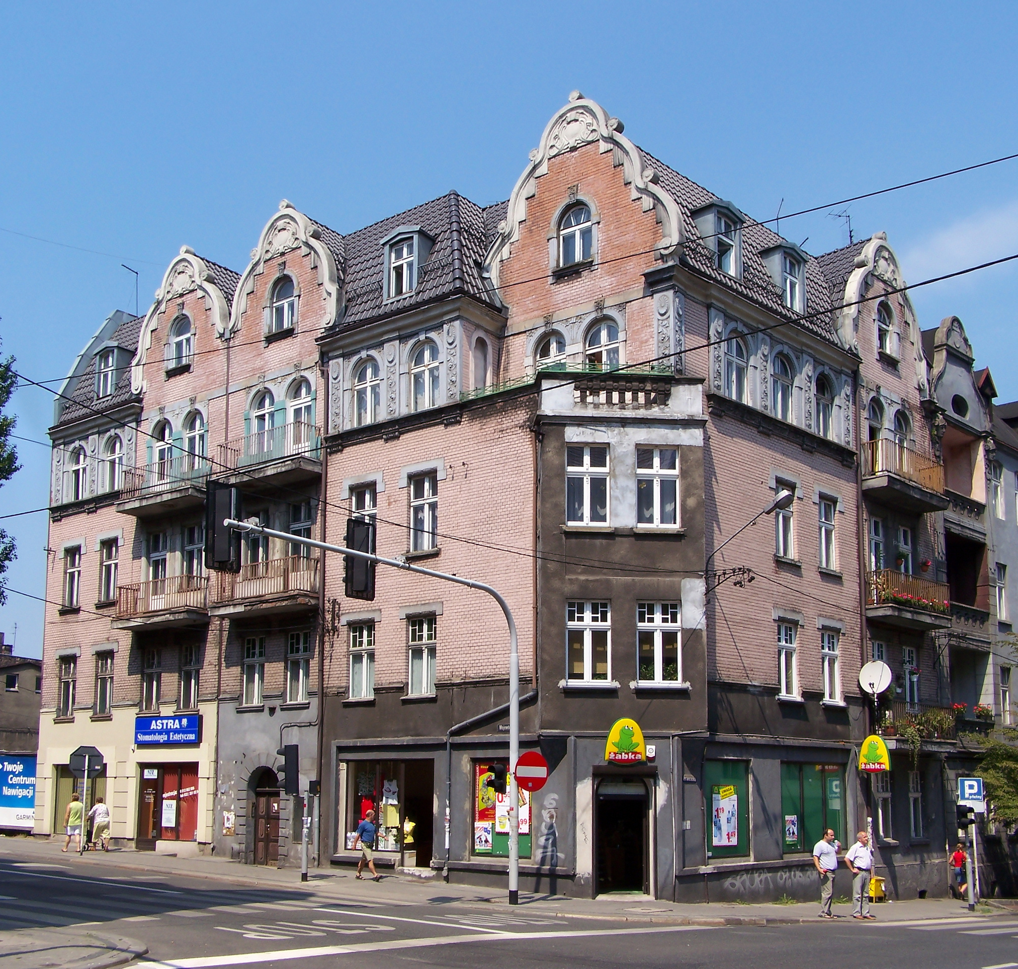 Tenement house on the Wojewódzka Street in Katowice.